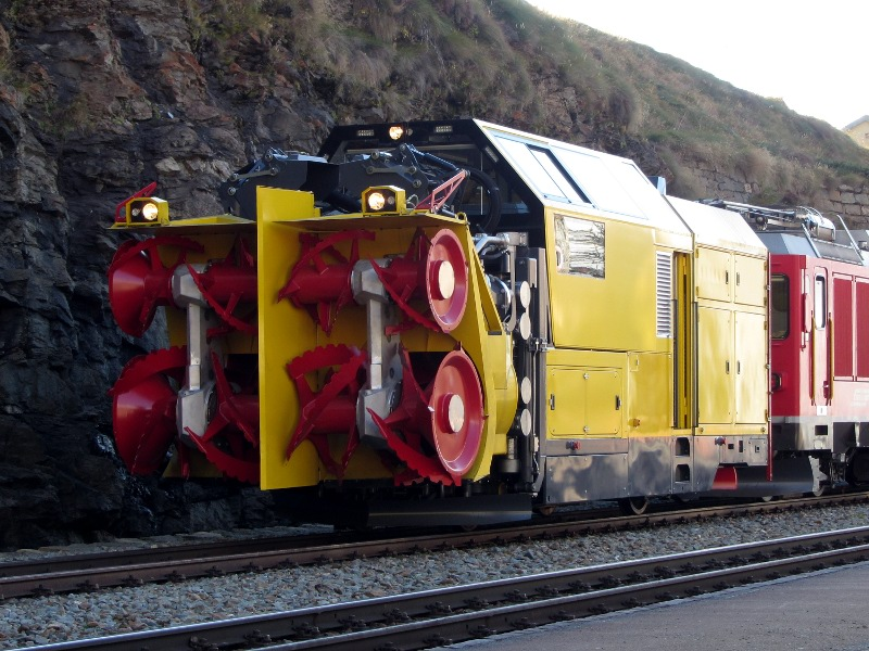 One of the new and unnamed Xrotmt 954 of Rhaetian Railway used for the Bernina Railway line. Photographed at the Alp Grüm Railway Station